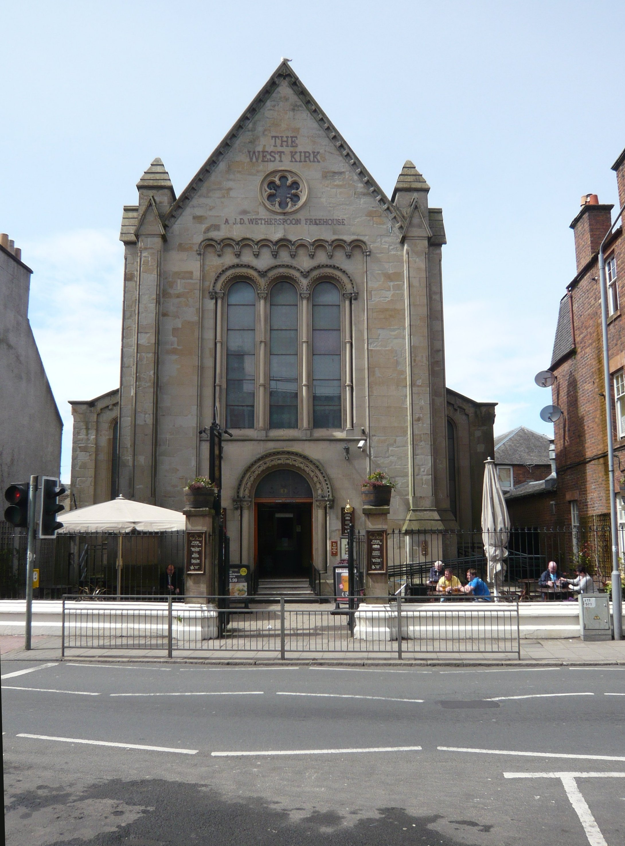 West Kirk, Sandgate, Ayr. Now a Wetherspoons pub. An early example of Romanesque revival architect. By the architect William Gale for the Prebyterian Free Church and built in 1844-5